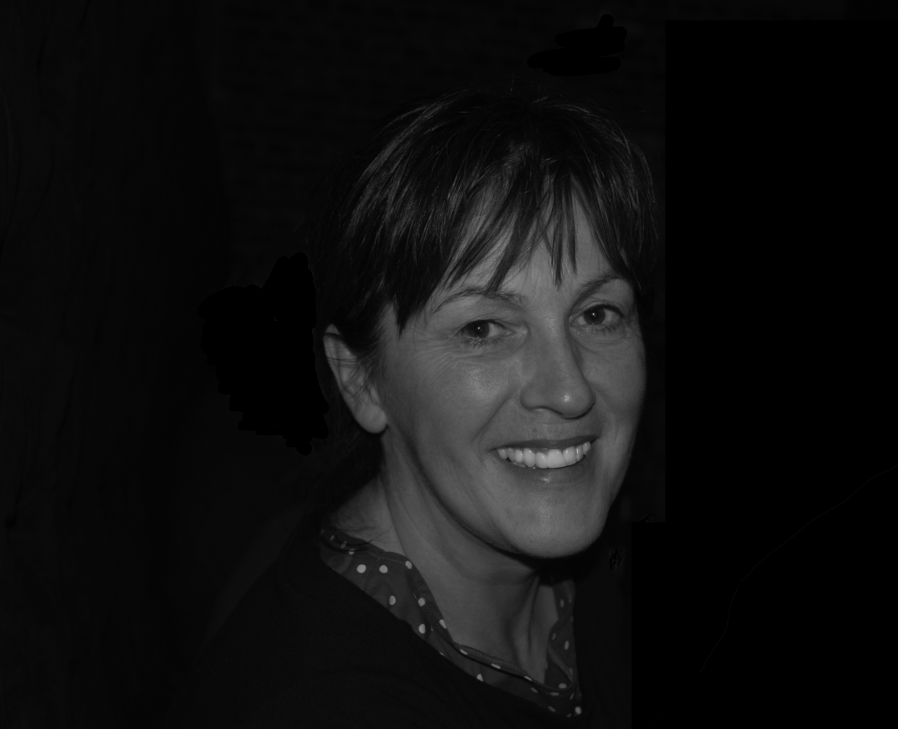 Portrait of Anita Groener, 2009